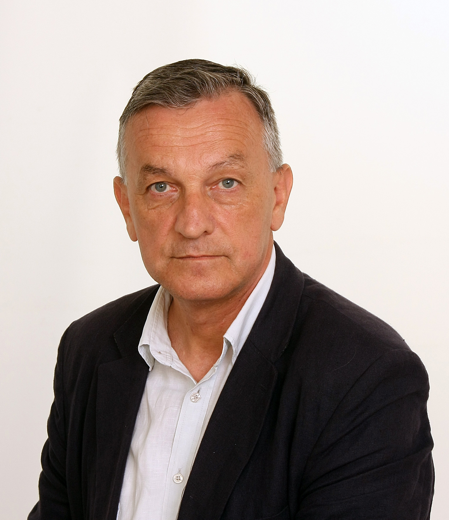 Dragan Ćirjanić, Serbian film and TV director, screenwriter, producer and writer, 2017. Српски (ћирилица): Драган Ћирјанић, српски филмски и ТВ режисер, сценариста, продуцент и писац, 2017. Srpski (latinica): Dragan Ćirjanić, srpski filmski i TV režiser, scenarista, producent i pisac, 2017.